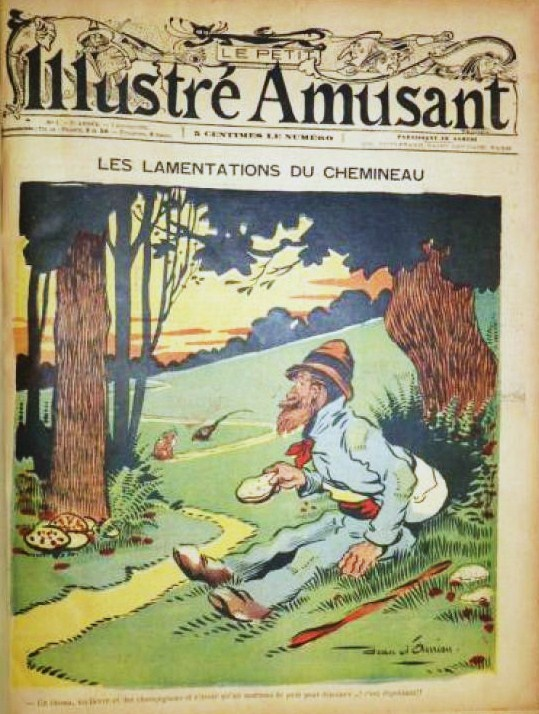 Frontpage of the illustrated french weekly magazine of humour created in Paris, october 1898. Designer : Jean d'Aurian, « Les lamentations d'un cheminot » (The Trackman's complain)